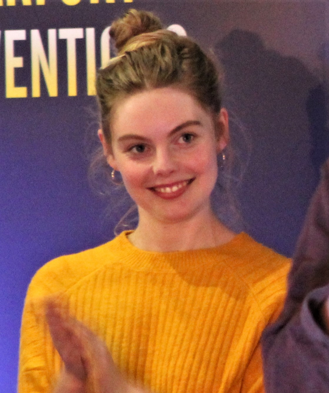 Actress Nell Hudson at the StarFury Outlander Convention in August 2018 in Birmingham, England.